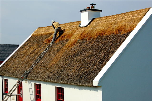 Cruit Island - Thatched roof maintenance